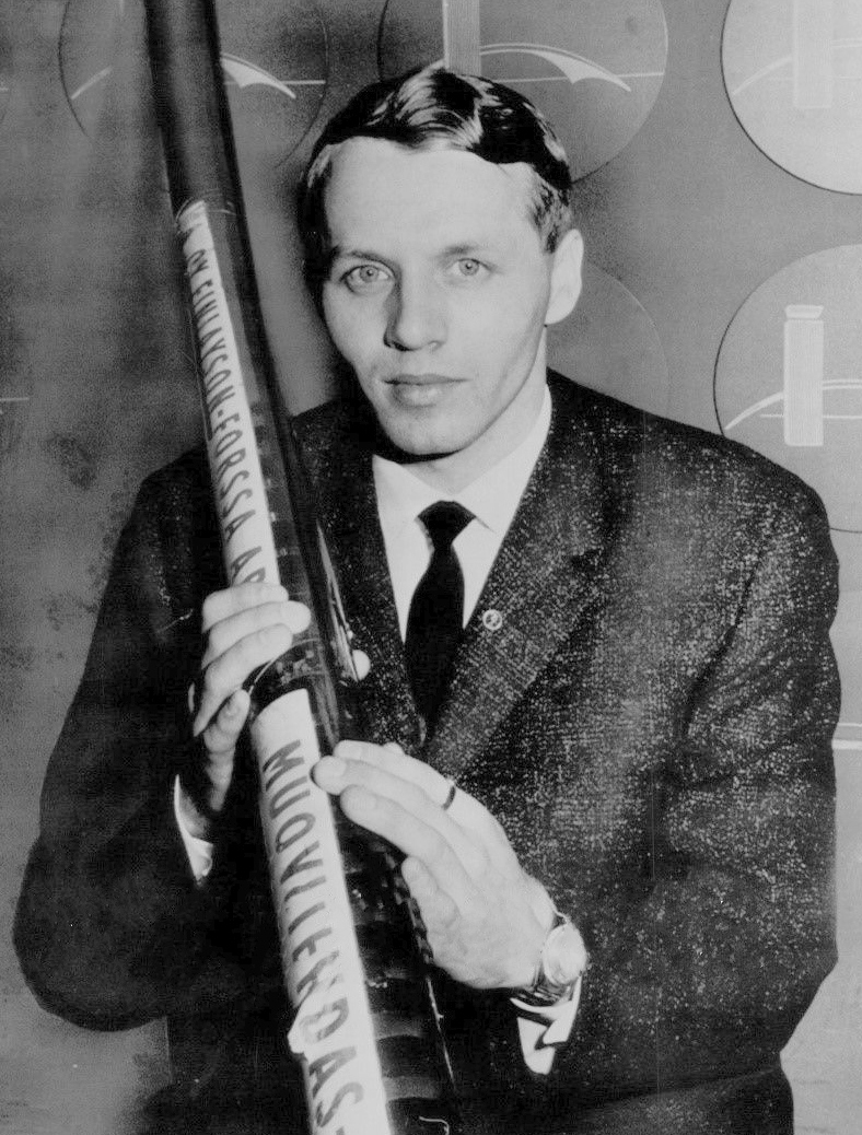 LG34 1963 Wire Photo PENTTI NIKULA No 1 Pole Vaulter Athlete Idlewild Airport NY